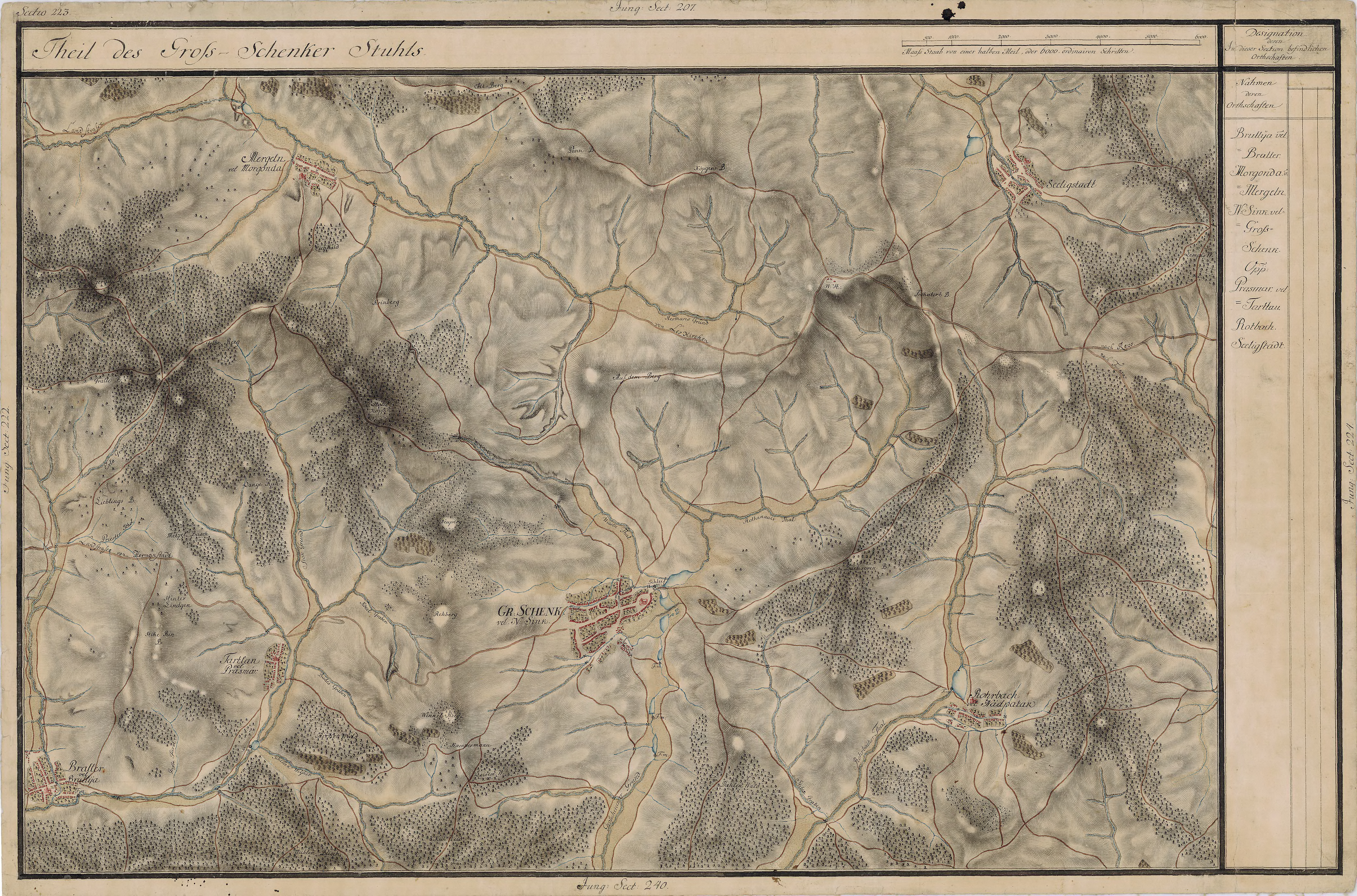 Grand Duchy of Transylvania, 1769-1773. Josephinische Landaufnahme pg.223